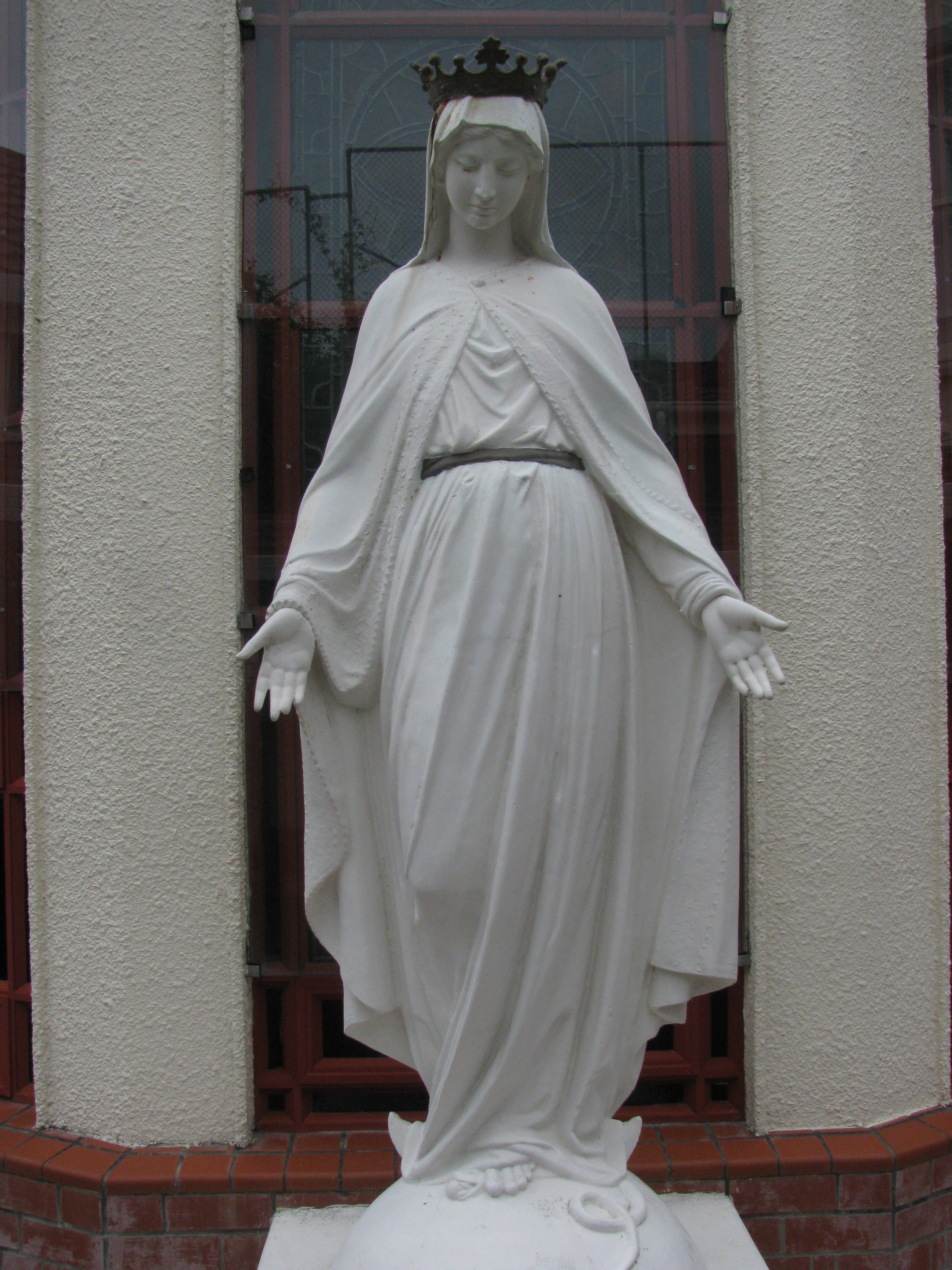 Sacred Heart Cathedral, Wellington: Statue of Blessed Virgin Mary in the cloister courtyard; windows of Blessed Sacrament Chapel.